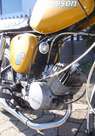 Simson S50 B original 1975 Motor